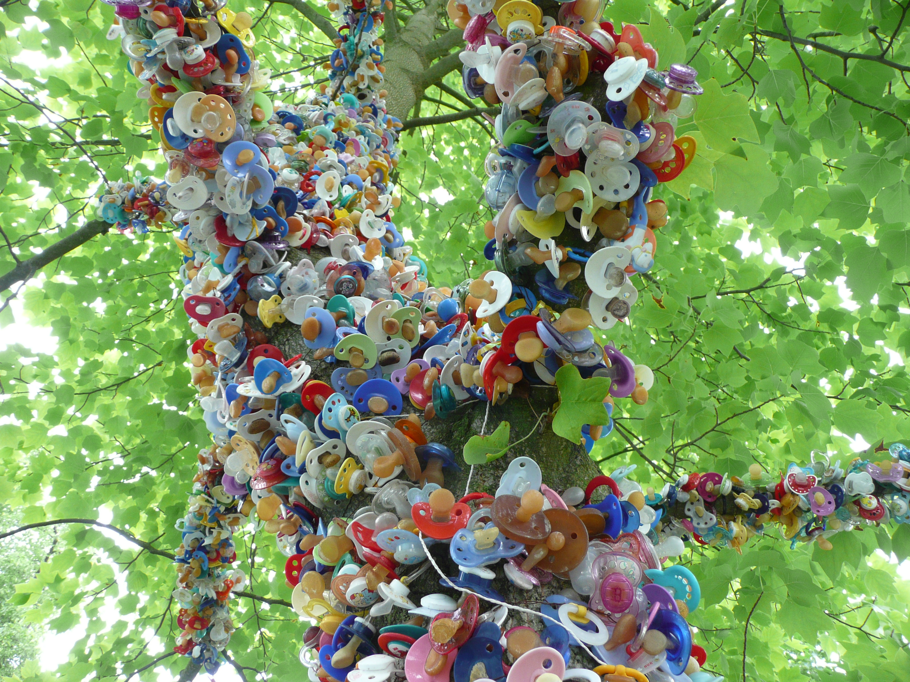 This image shows a detail of the Pacifier Tree of the University Hospital Dresden.